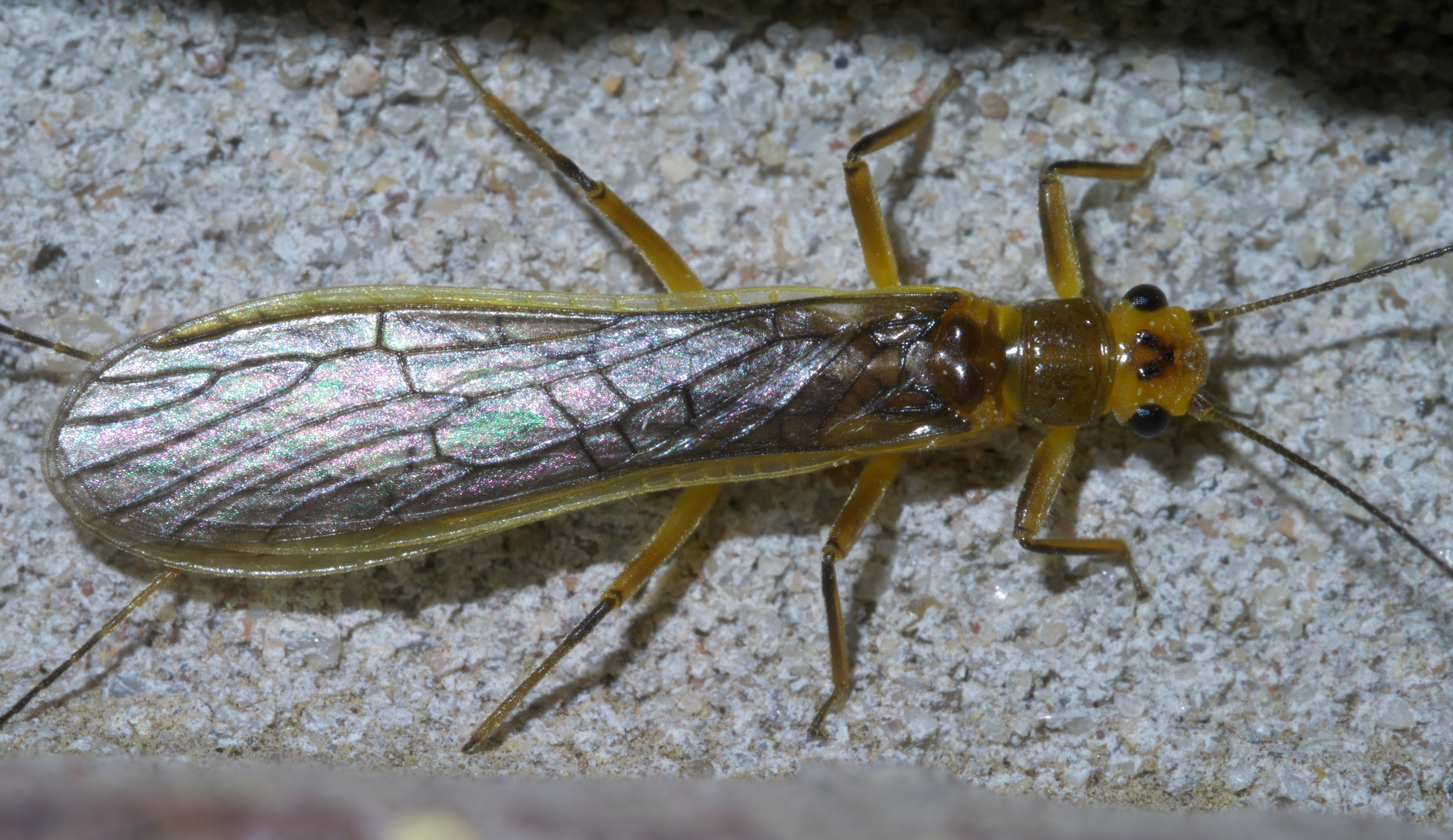 Perlidae, common stoneflies, Size: 13.8 mm